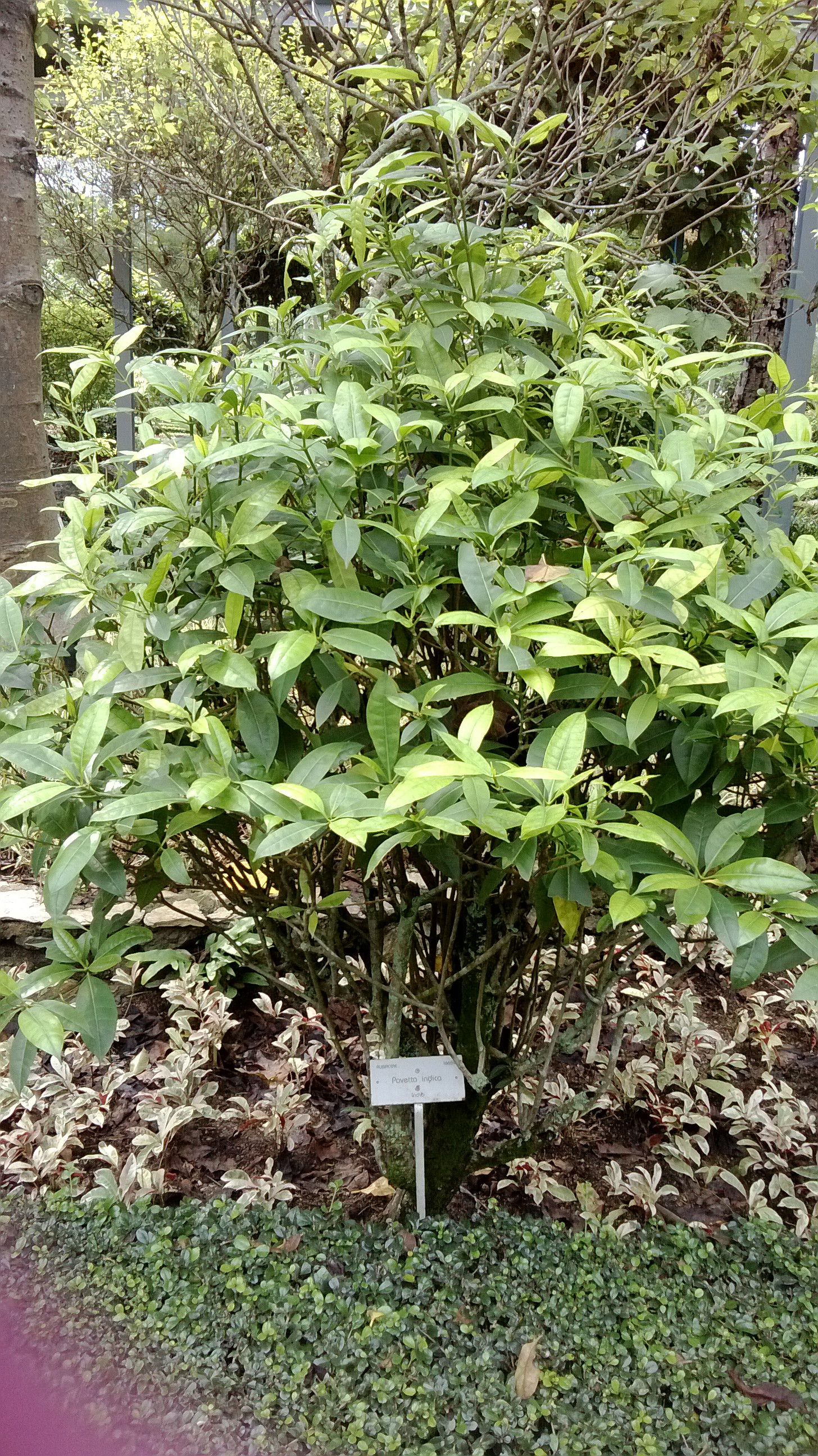 Pavetta indica. Nong Nooch Tropical Garden. Thailand.